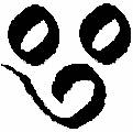 This image was written by Enthousiasme in August 15,2006. Cette photo a été écrit par Enthousiasme en aôut 15,2006. このイメージはEnthousiasmeによって2006年8月15日に書かれました。